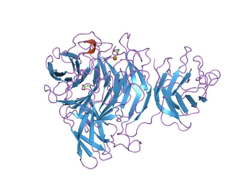 Cartoon representation of the molecular structure of protein registered with 1gof code.